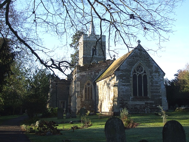 St Mary Magdalene's parish church, Westoning, Bedfordshire, seen from the northeast